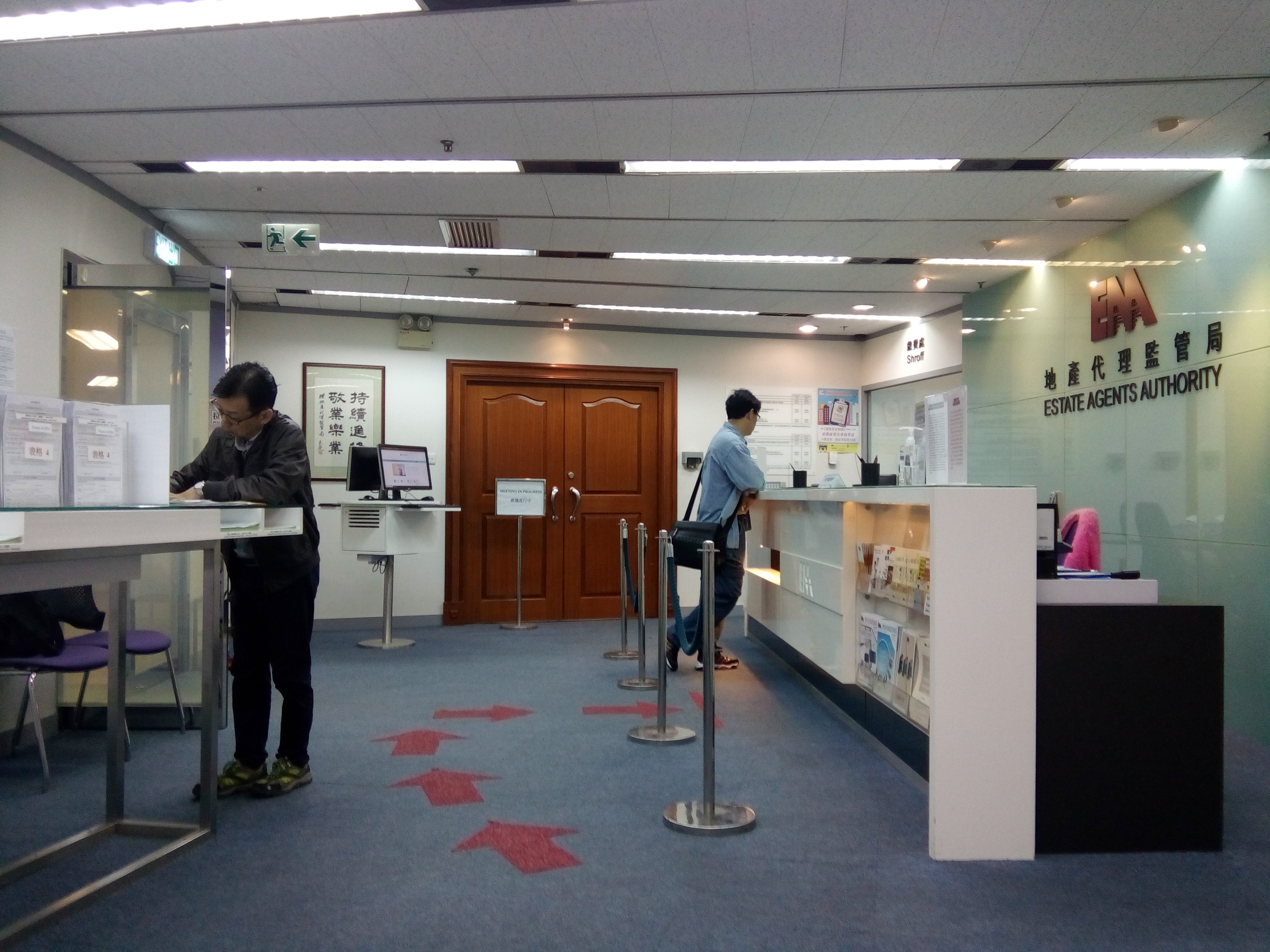 HK WAN CHAI Hopewell Centre 38TH FLOOR EAA OFFICE interior in APRIL 2017, Estate Agents Authority, Hong Kong 地產代理監管局